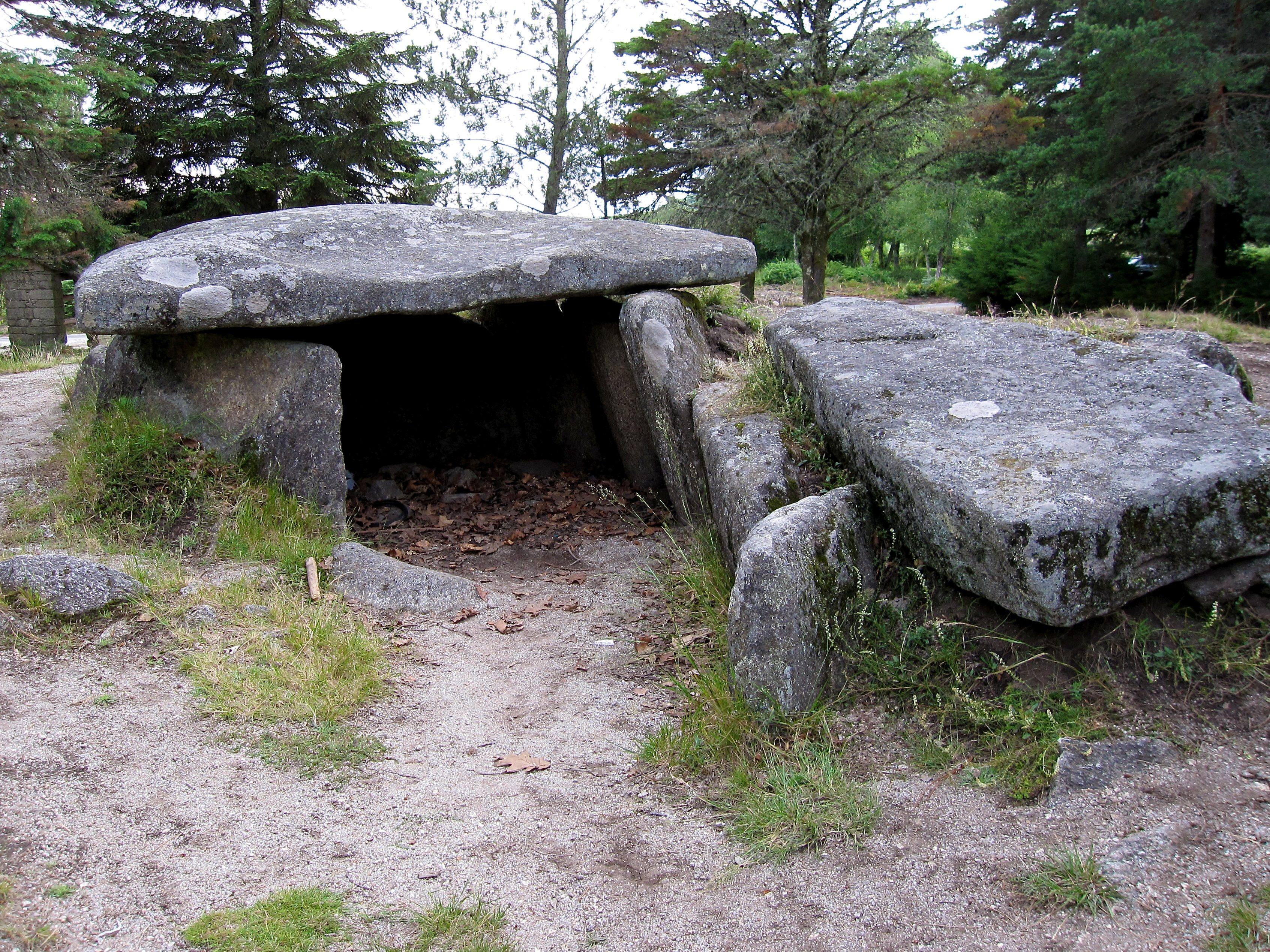 This file was uploaded for Wiki Loves Monuments in Portugal with the unique identifier 71222.